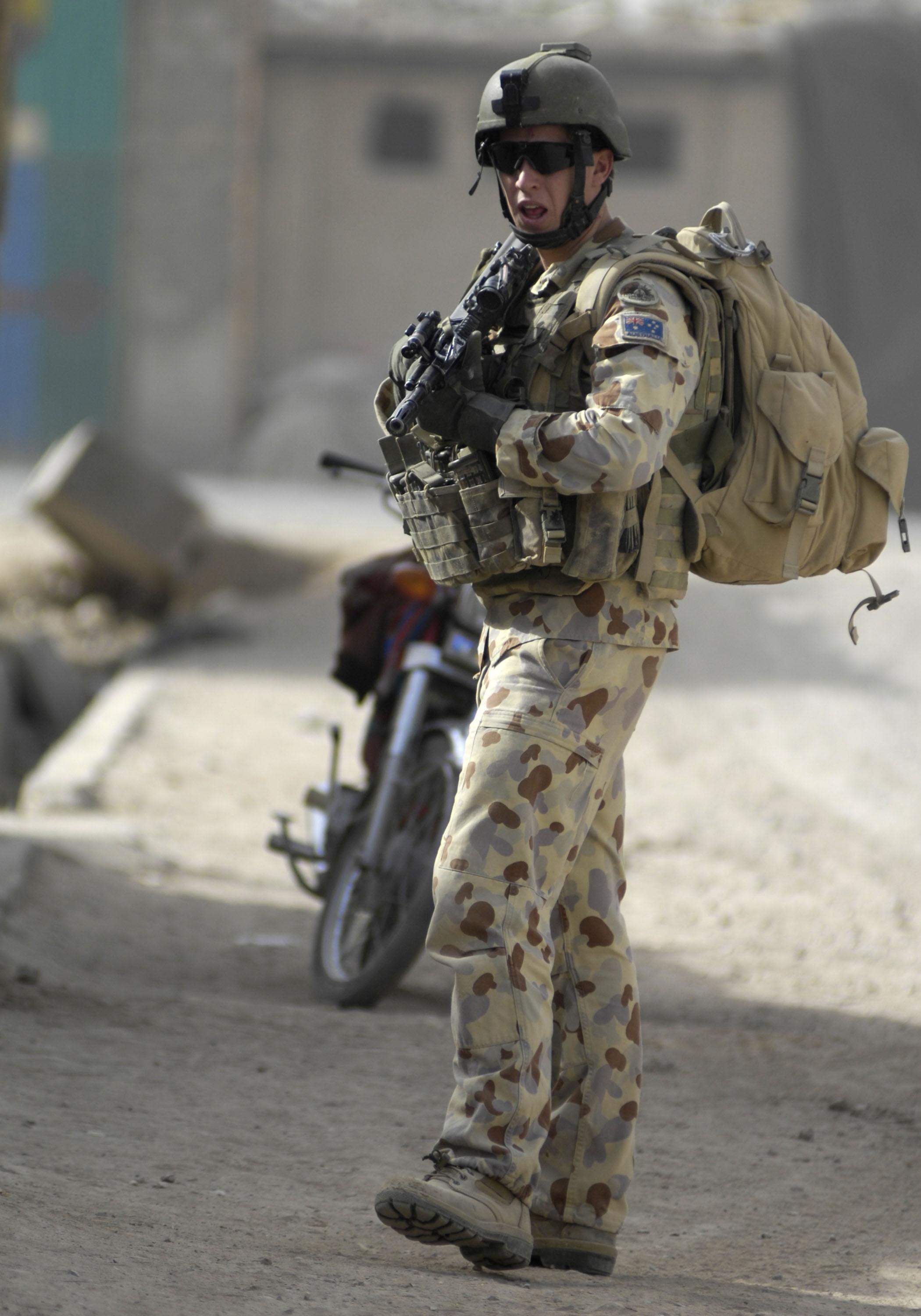 Lance Corporal Daniel Marquart, 2nd Platoon, 3rd Battalion (Para), Royal Australian Regiment, shouts a message to a sentry during a foot patrol in the town of Tarin Kowt while conducting an International Security Assistance Force mission in Uruzgan, Aug. 16, 2008.